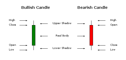 Candlestick Chart Definition